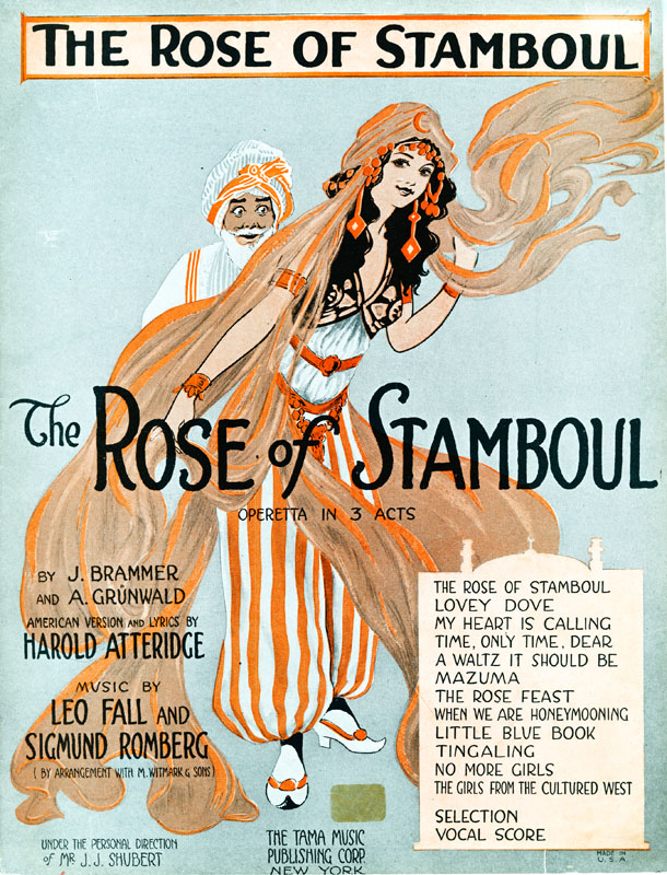 Sheet music for the operetta The Rose of Stamboul, staged by the Shubert Brothers